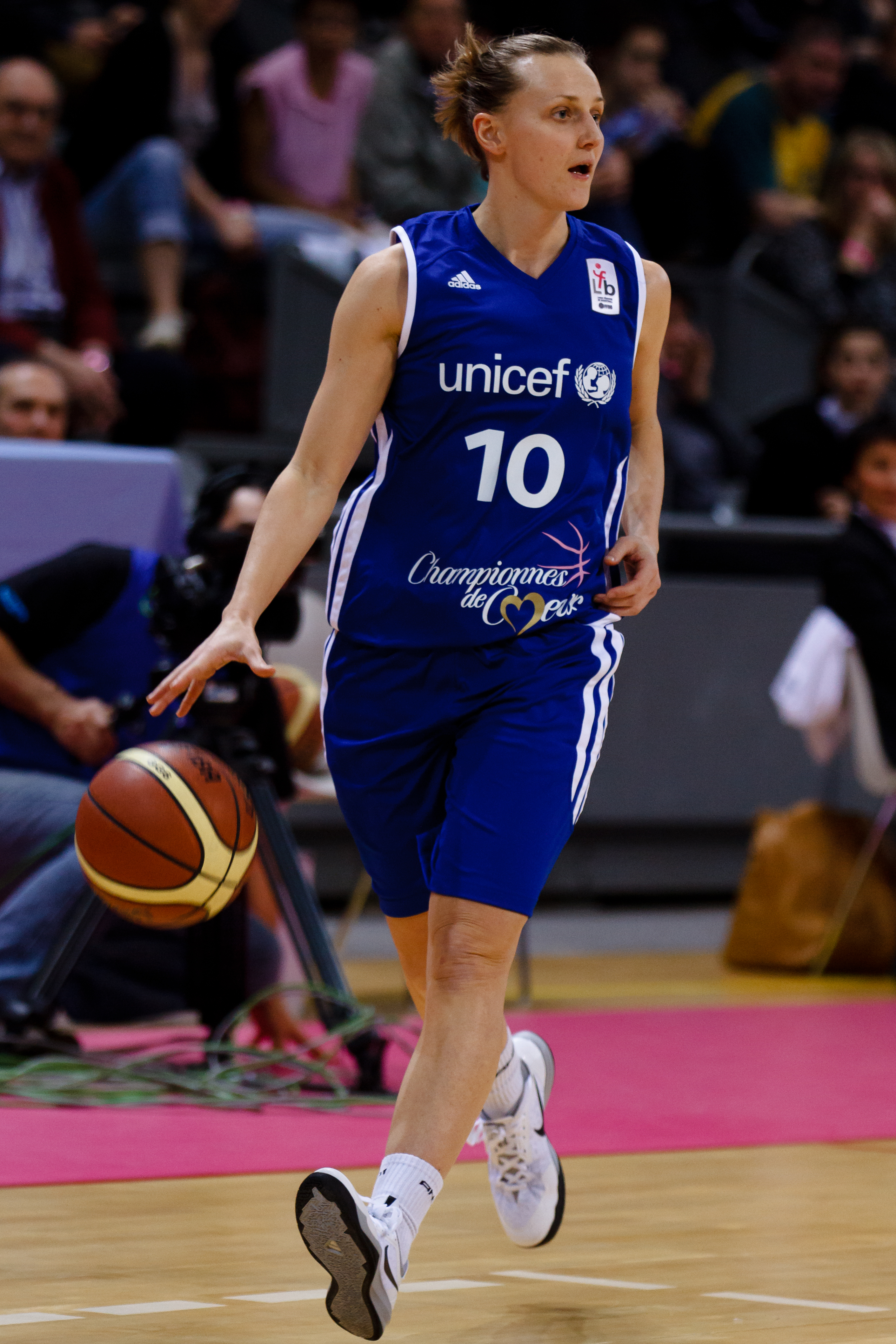 Sylvie Gruszczynski, during exhibition game Championnes de cœur in Toulouse.